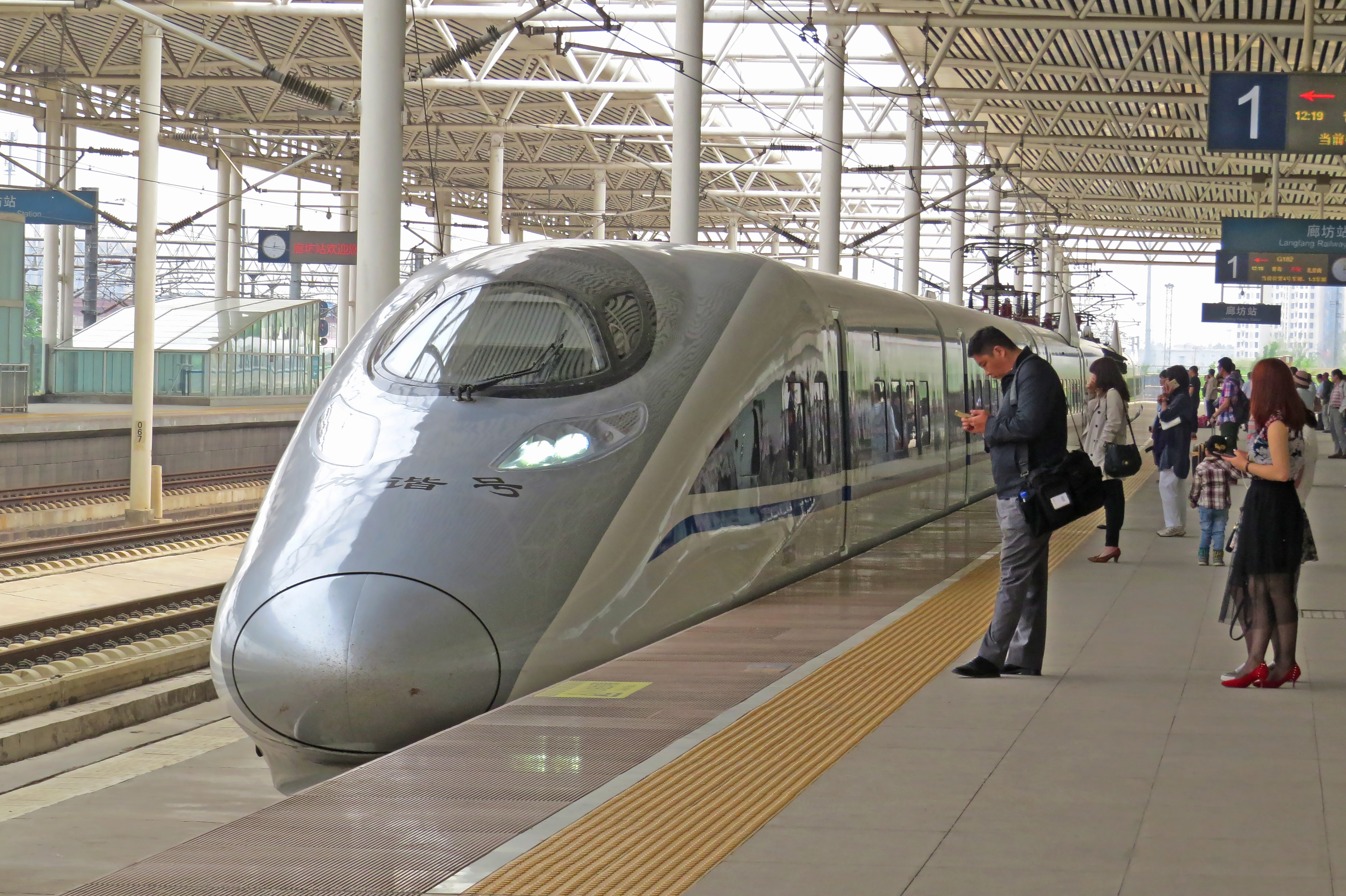 G182 from Qingdao to Beijing South, arriving Platform 1.